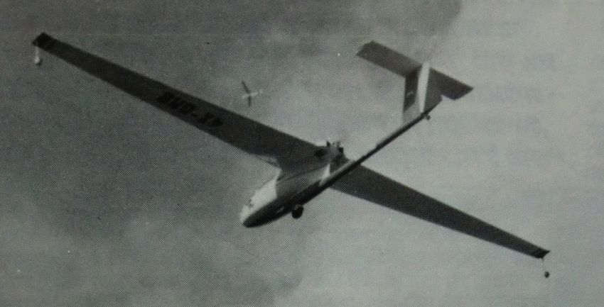 SZD-45A Ogar